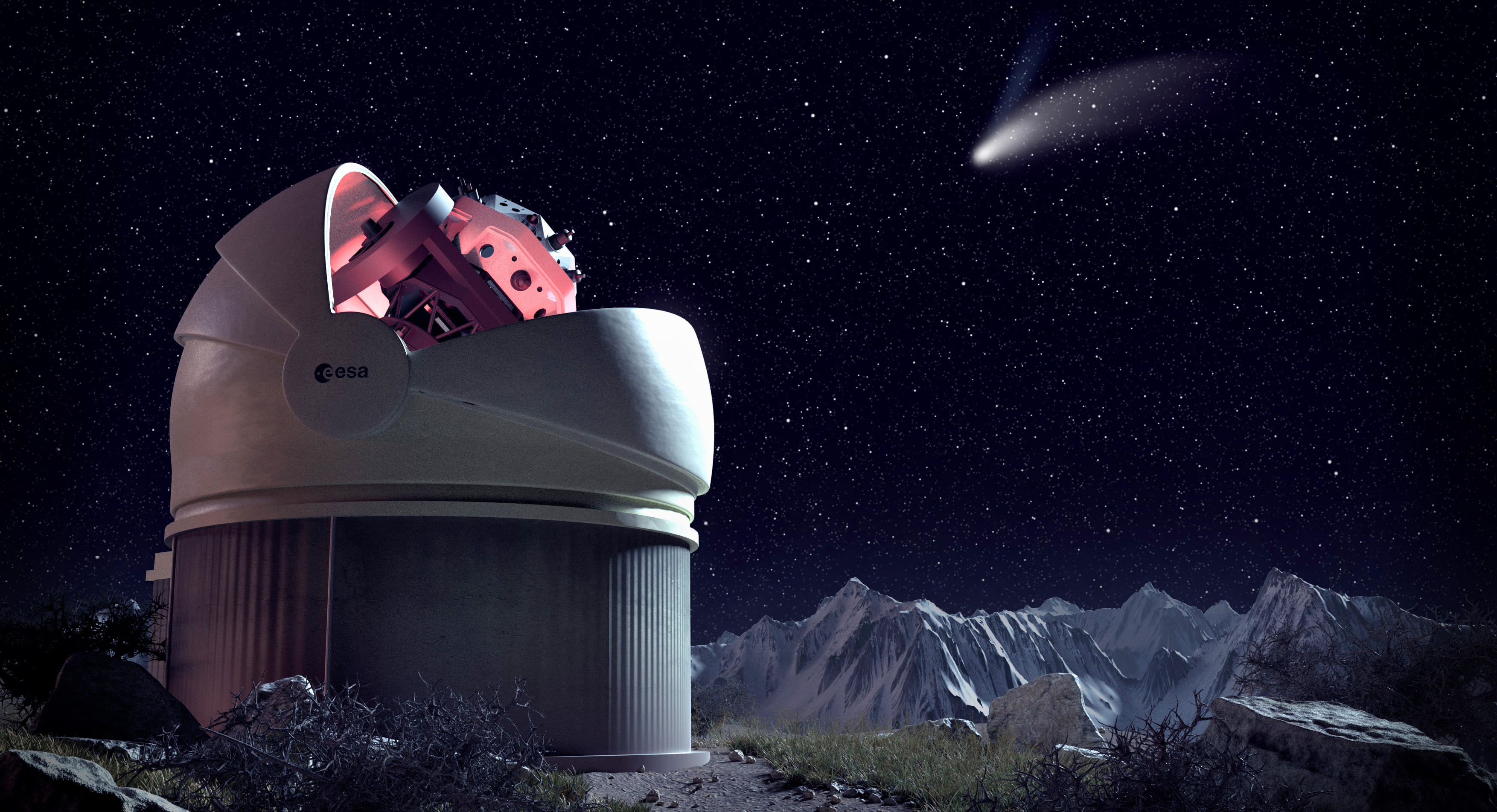 Artists impression of the completed ESA NEOSTEL flyeye telescope.